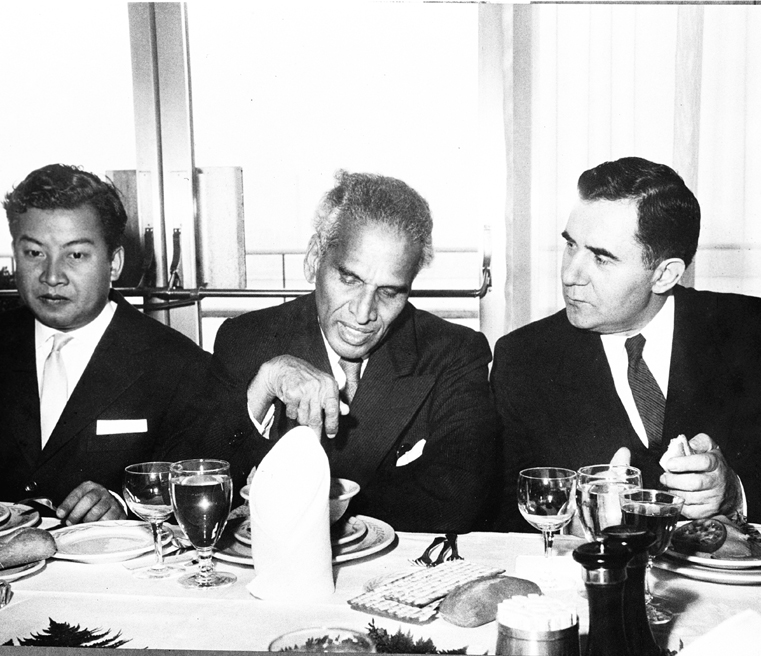 X.P. Division, A22a(v)/30Shri V.K. Krishna Menon, Chairman of the Indian Delegation to the thirteenth session of the United Kingdom General Assembly, gave a luncheon recently in honour of His Royal Highness Prince Norodom Sihanouk, President of the Council of Ministers, Chairman of the Cambodian Delegation at the United Nations.Photo shows His Royal Highness Prince Sihanouk (left), Shri V.K. Krishna Menon and His Excellency Mr. Andrei Gromyako, Foreign Minister of the Soviet Union and Chairman of the Delegation of the USSR to the Thirteenth Session of the General Assembly.